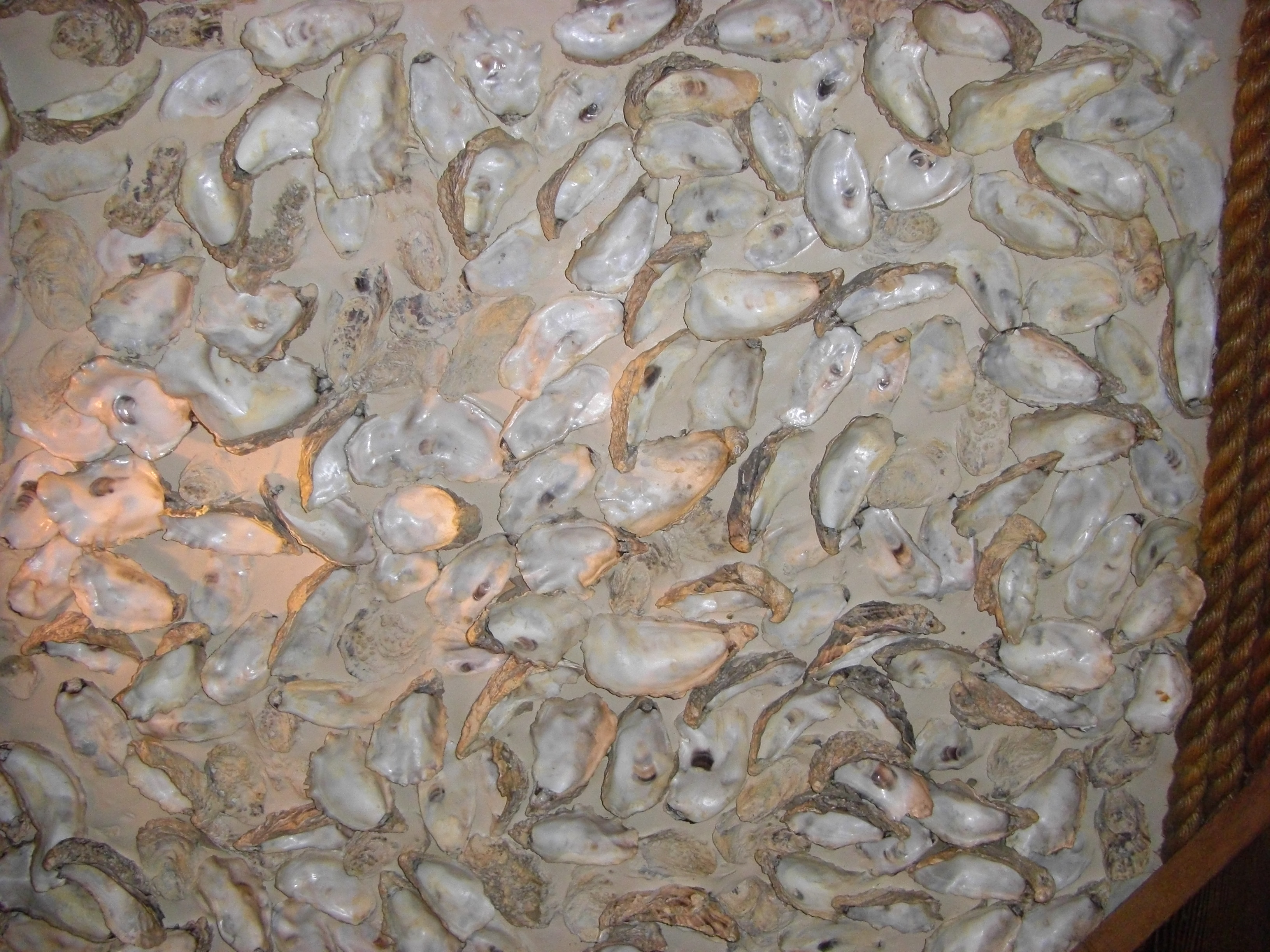 Oyster shells in the wall of the Shell Room at De Hems.